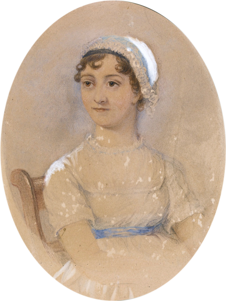 Jane Austen (based on the portrait by Cassandra Austen) watercolour over pencil heightened with gouache on card 14.3 x 10 cm before 1870